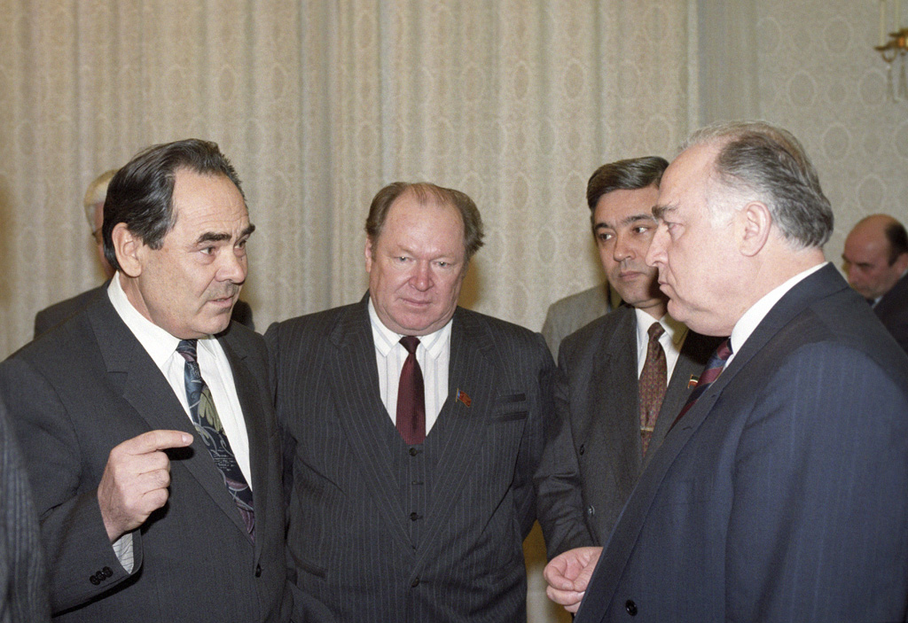 “Tatarstan President Mintimer Shaimiev and Prime Minister Viktor Chernomyrdin”. Tatarstan President Mintimer Shaimiev (left) and Prime Minister Viktor Chernomyrdin (right) during a meeting in the Kremlin. Negotiations between delegations of Russia and Tatarstan to prepare an intergovernmental agreement.